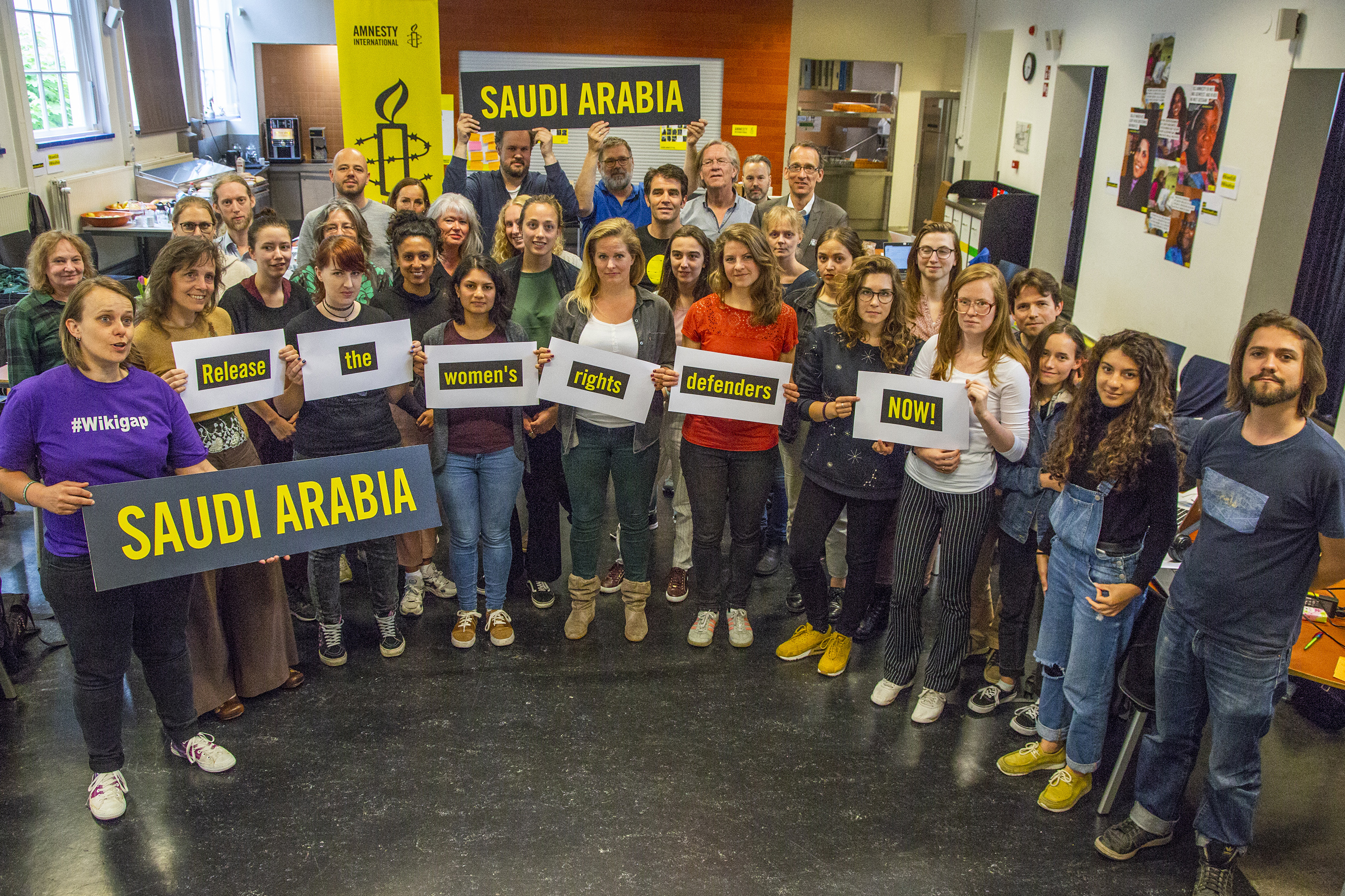 Group photo at the Wiki-a-thon May 19th in Amsterdam, protesting against the imprisonment of 5 Saudi-Arabian woman